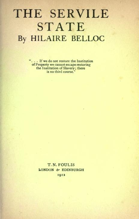 facsimile of first edition cover page of the servile state, 1912